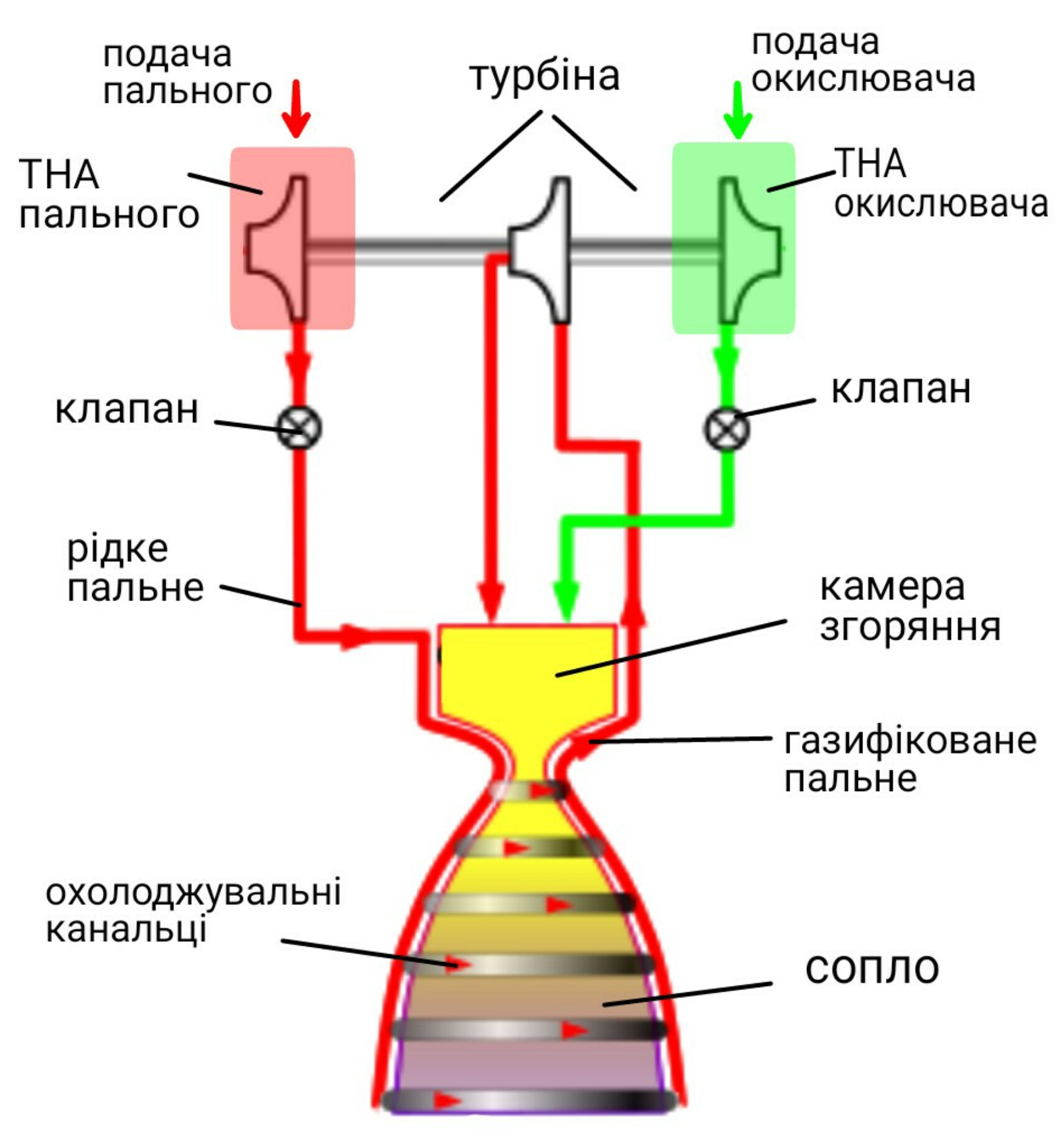 Rocket engine using the expander cycle